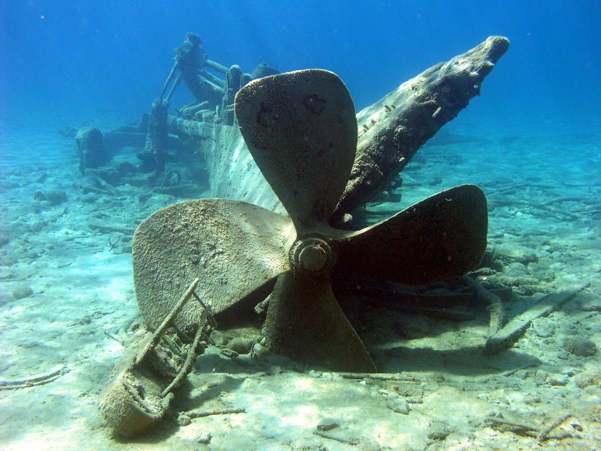 The MONOHANSETT was one of the Great Lakes' many November shipwrecks. Its 35 year career ended in November 1907. When the vessel was just off the shores of Thunder Bay Island, there was a fire on board that lead to a dramatic sinking. Thankfully the Thunder Bay Island Life Saving Station was nearby and there were no lives lost. Today the wreck lies in three sections, one of which is this iconic propeller. Learn more about this shipwreck from Thunder Bay National Marine Sanctuary. (Original photo source and more information: NOAA Thunder Bay National Marine Sanctuary)